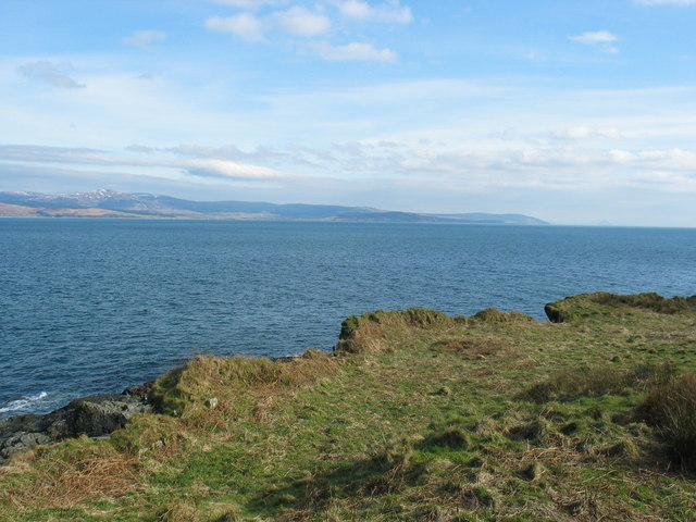 Airds Castle, site of remains.